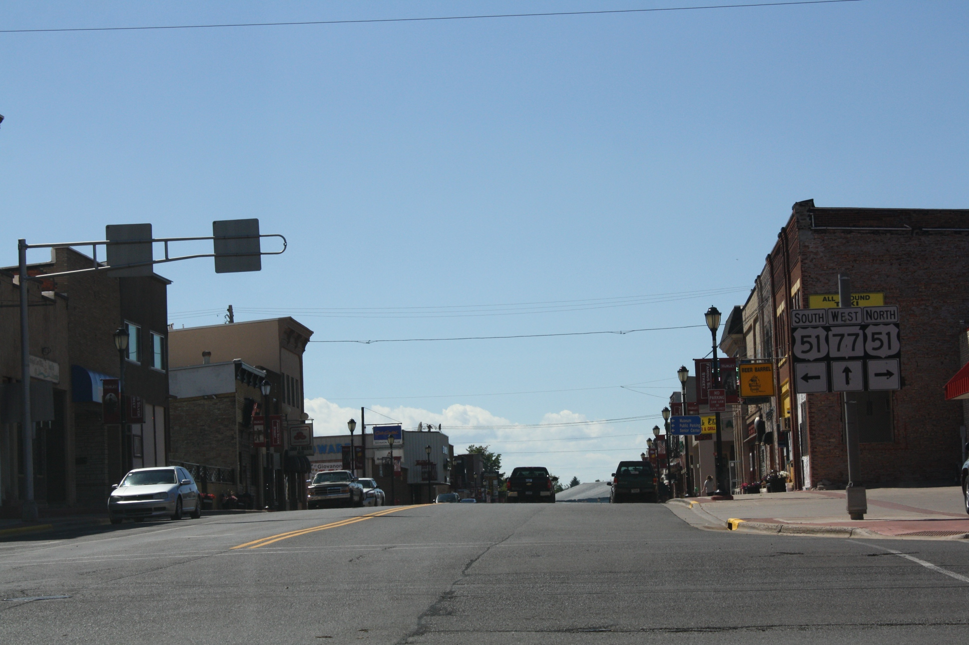 Looking west at the east terminus for Wisconsin Highway 77.